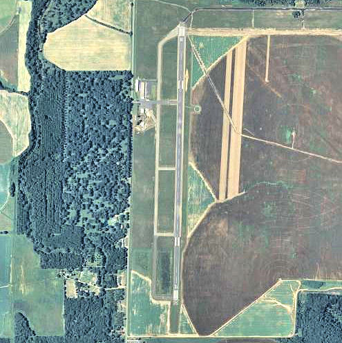 USGS digital orthophoto of Donalsonville Municipal Airport in Georgia